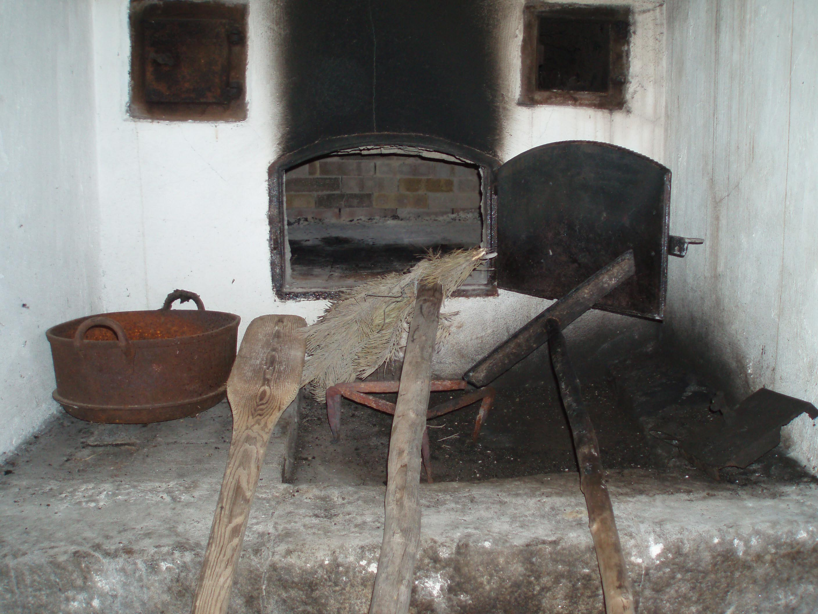 Inside "Eldhus". Fireplace + oven for baking bread + tools for oven.